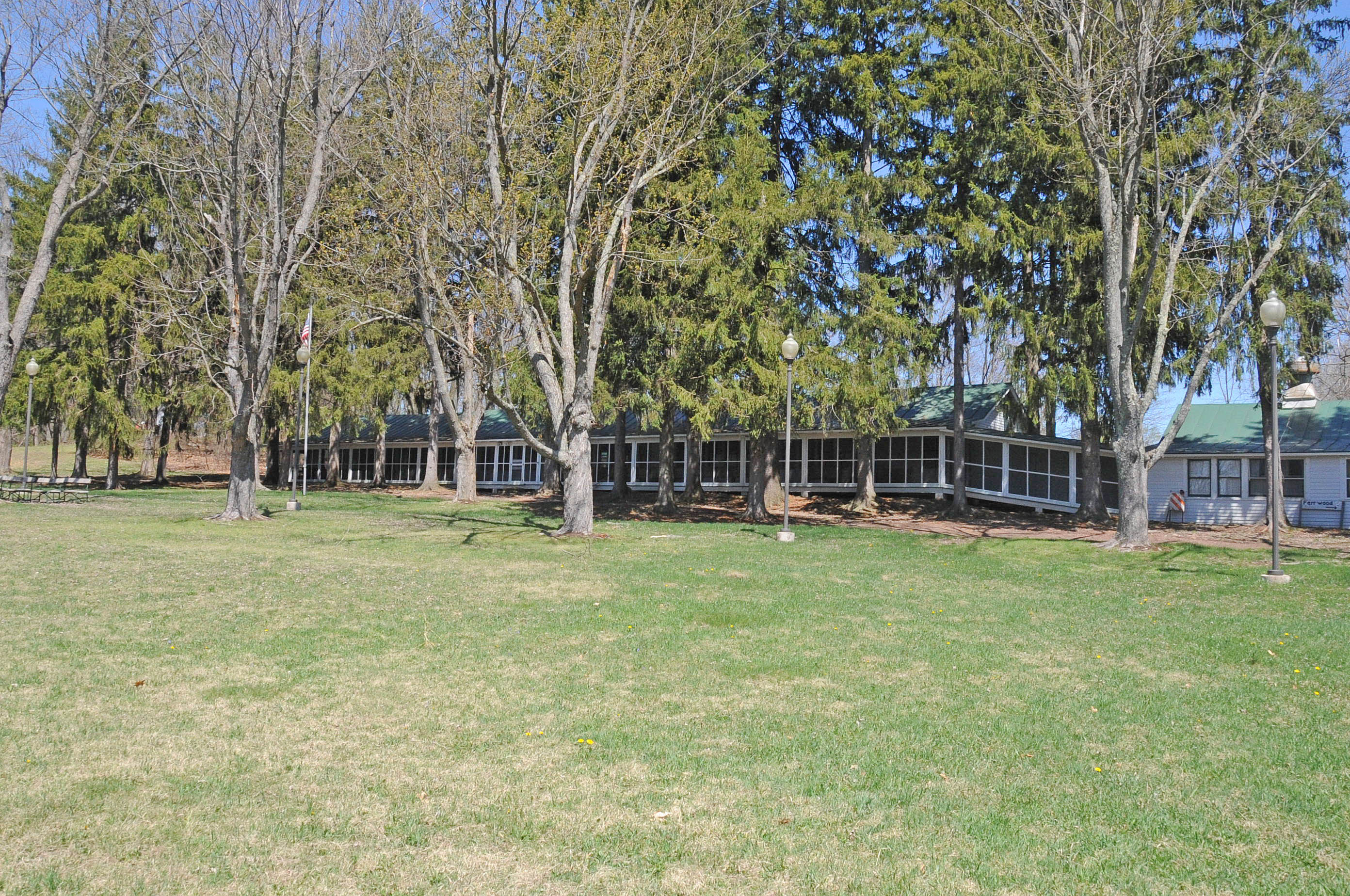 AKA FERRWOOD MUSIC CAMP - ; THE HISTORIC BUILDINGS AND STRUCTURE ARE A DORMITORY (1927), DINING ROOM / KITCHEN (C. 1935), AND WOOD FRAME PUMP HOUSE (1927). IT ORIGINALLY OPERATED AS A CAMP FOR UNDERNOURISHED CHILDREN PREDISPOSED TO TUBERCULOSIS. THE FERRWOOD MUSIC CAMP, OPERATED BY THE GREATER HAZLETON PHILHARMONIC SOCIETY, OPENED IN 1969.